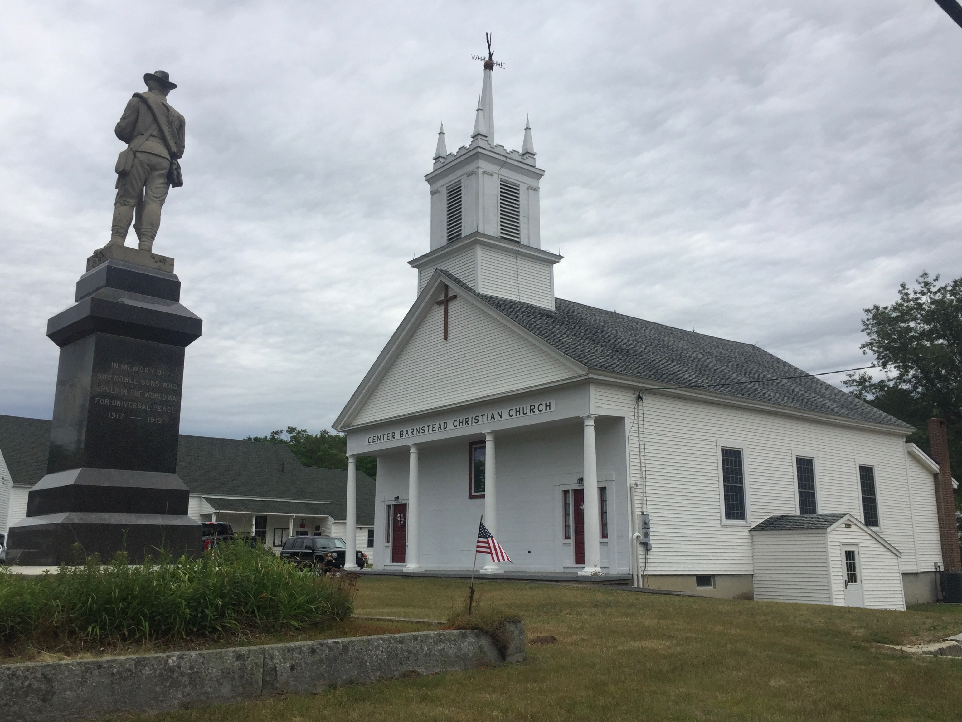 War monument and central church in Center Barnstead, New Hampshire, 2018